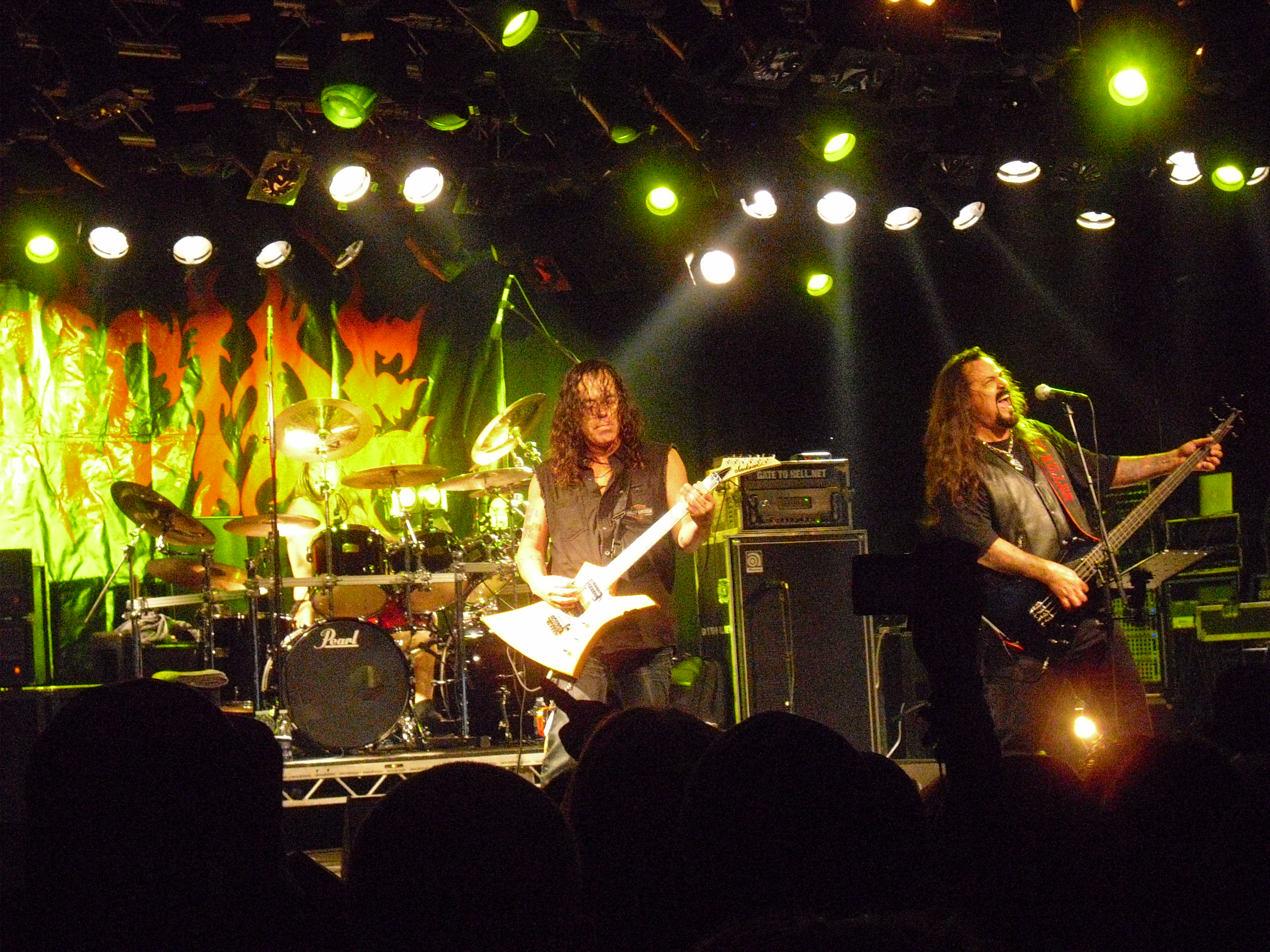 Deicide performing live at Metaltown Festival in June 2011